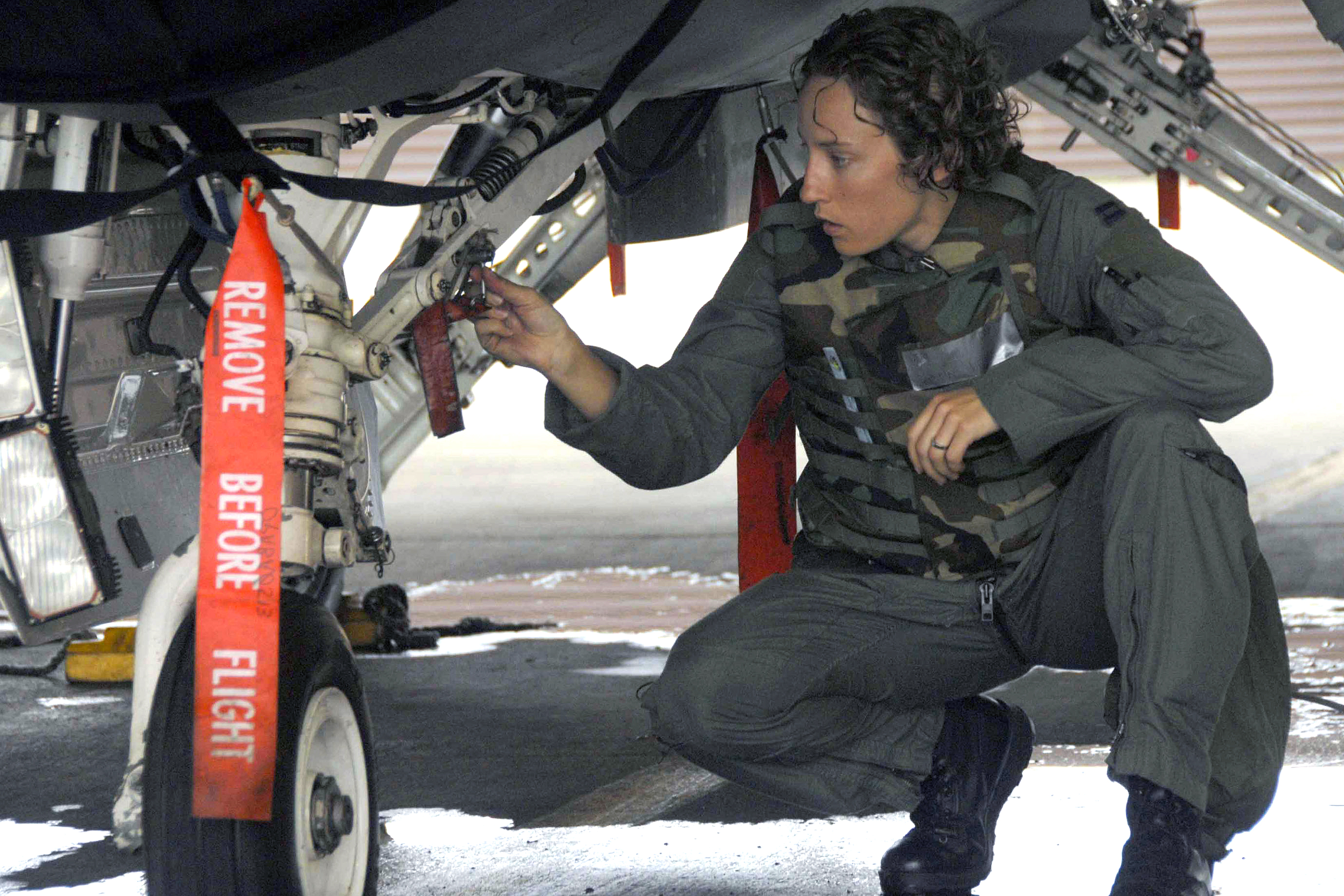 U.S. Air Force Capt. Kristin Hubbard, a pilot, checks the landing gear on an F-16 Fighting Falcon during an exercise on Osan Air Base, South Korea, July 21, 2008. The readiness exercise tests the abilities of the airmen to execute combat operations, receive follow-on forces and defend the base from attack.